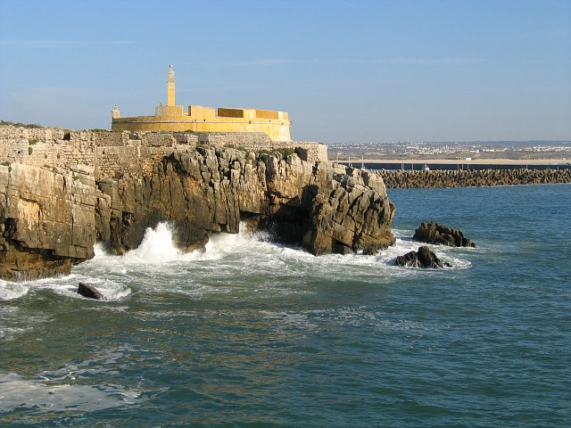 Photography by Osvaldo Gago